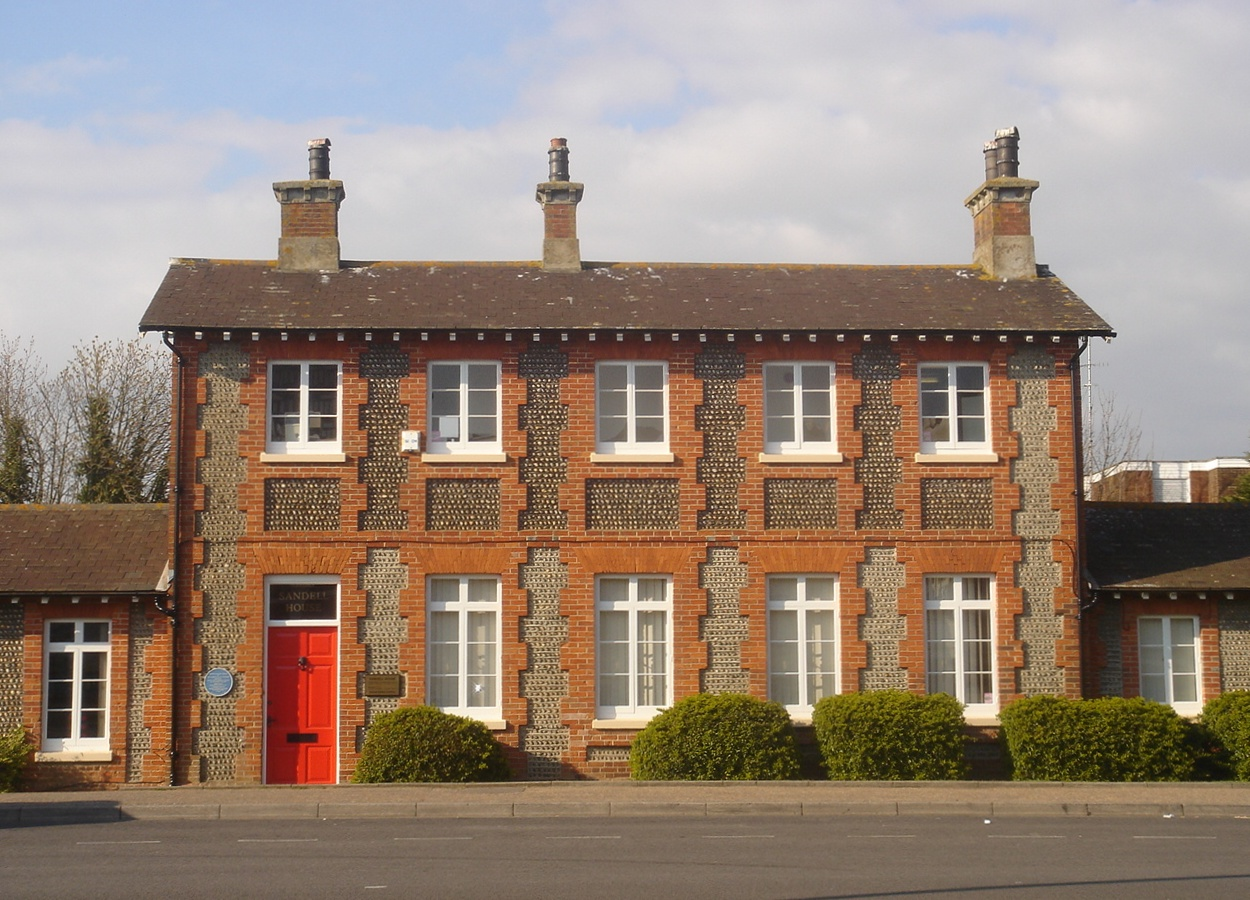 The original railway station building at Worthing, West Sussex, England; built in 1845 and superseded in the 1860s. It was restored in the 1980s and is now an office. Listed at Grade II by English Heritage (IoE Code 432862)